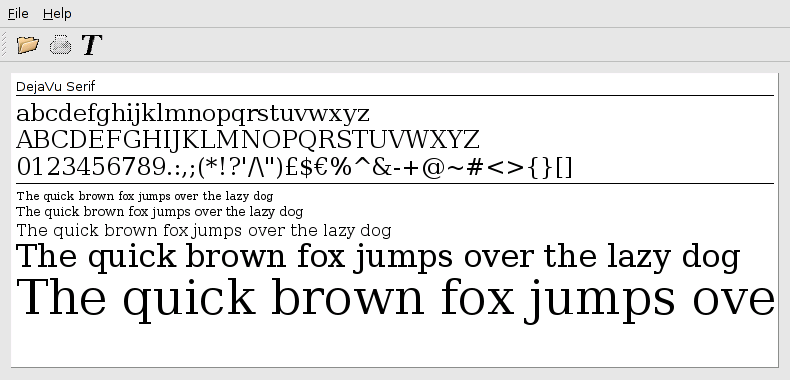 The quick brown fox jumps over the lazy dog. KDE font viewer, DejaVu Serif font